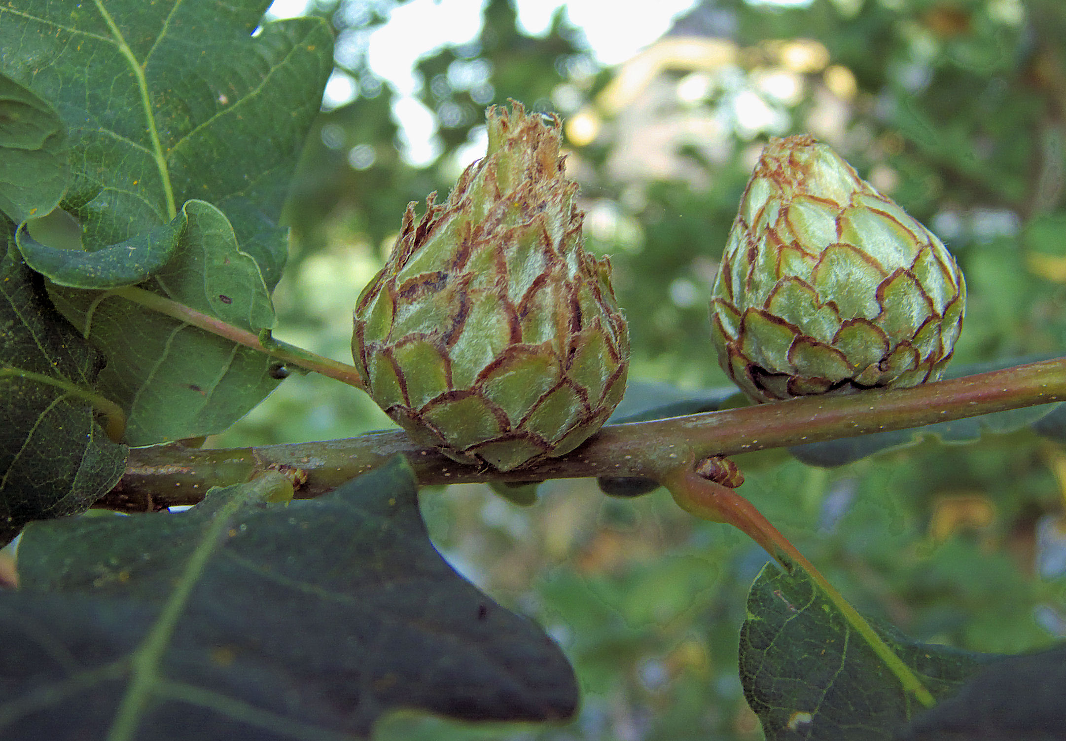 Quercus robur with female gall of Andricus foecundatrix syn. Andricus fecundator